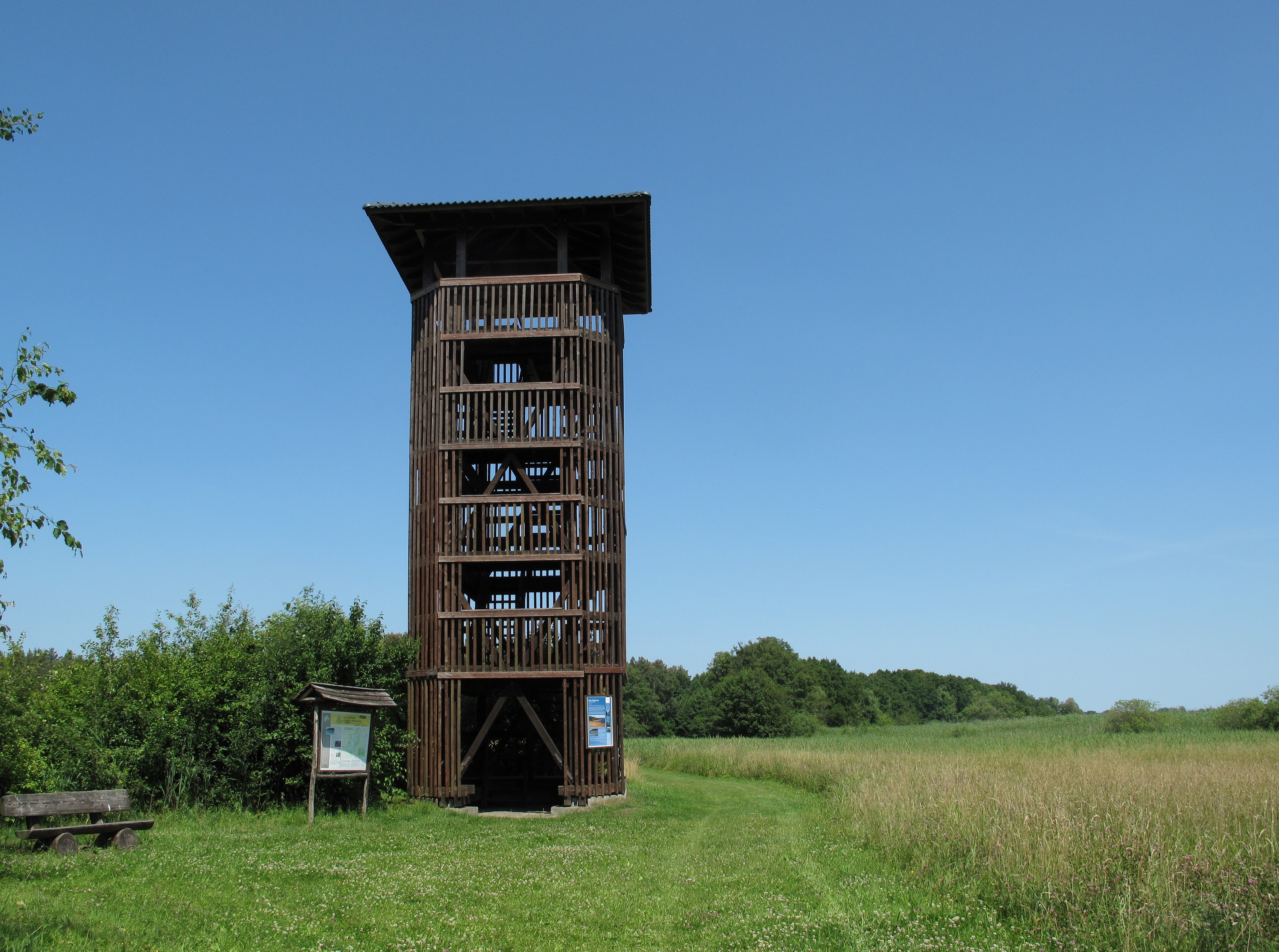 Wooden observation tower Selchow nearby the „Großer Wochowsee“ with views overlooking the natural landscape of the „Groß Schauener Seenkette“ (six linked lakes), purchased in 2001 by the Sielmann foundation. The village Selchow is a part of the town Storkow, District Oder-Spree, Brandenburg, Germany. The village was first mentioned in 1321 and had on January 1, 2013 259 inhabitants.